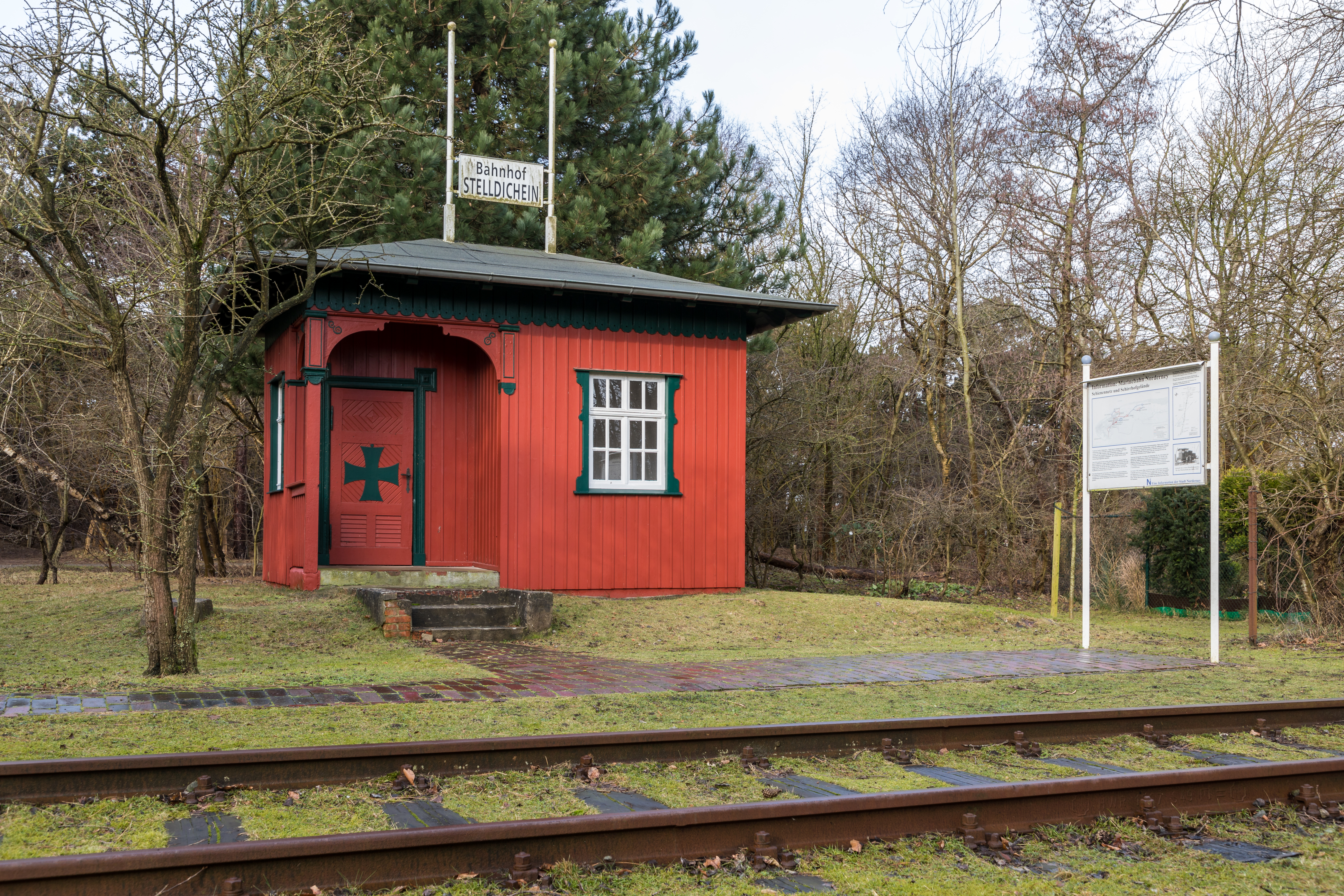 Railway station Stelldichein, Norderney, Lower Saxony, Germany This is a photograph of an architectural monument.